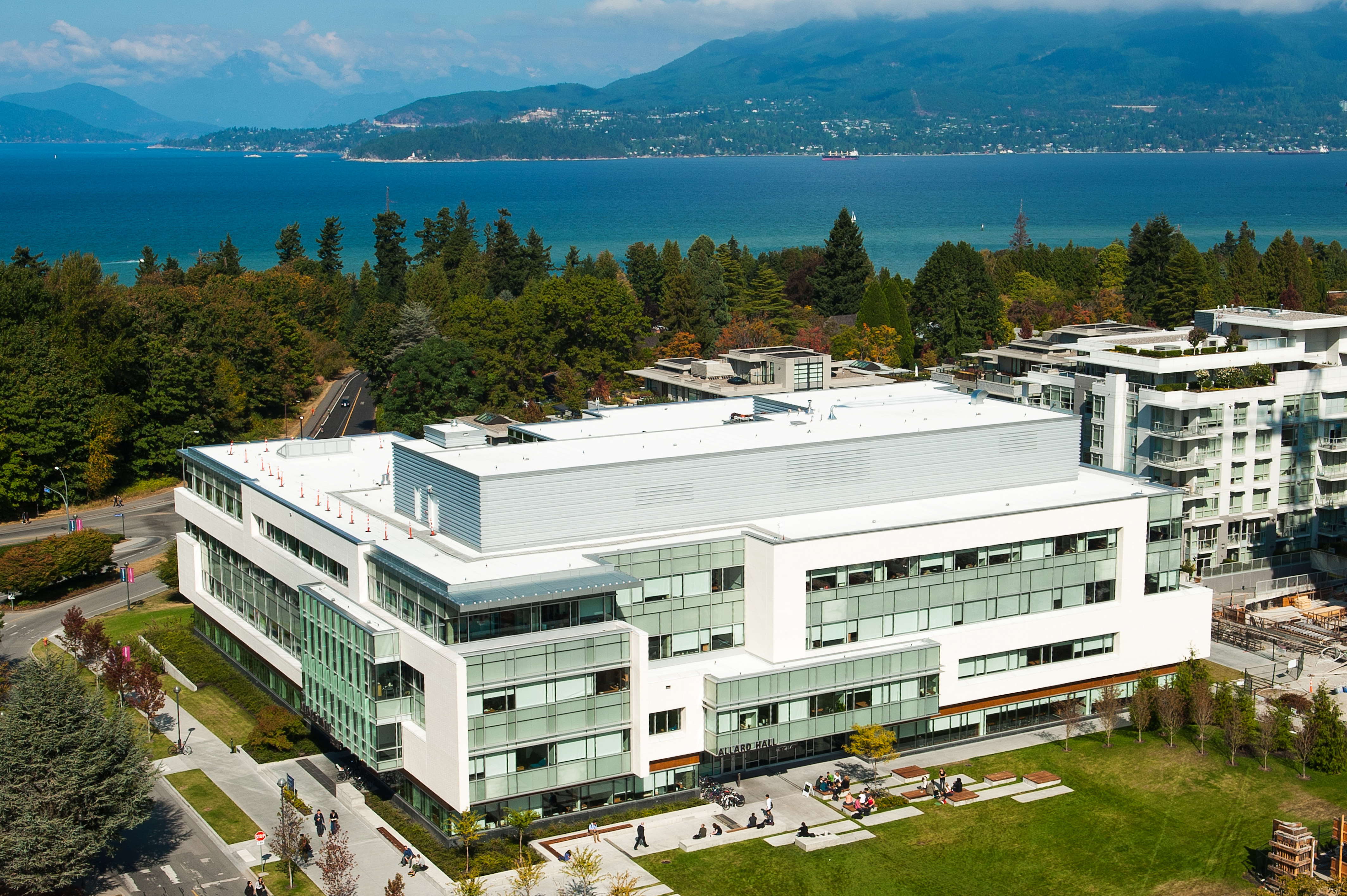 Aerial view of UBC Law at Allard Hall in Vancouver, British Columbia (Canada). It was designed as a joint venture by CEI Architecture and Diamond and Schmitt Architects. construction: 2008-2011